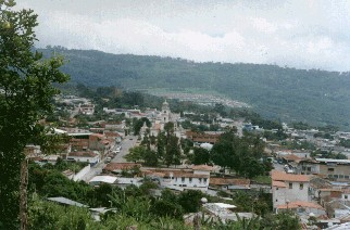 photo of escuque